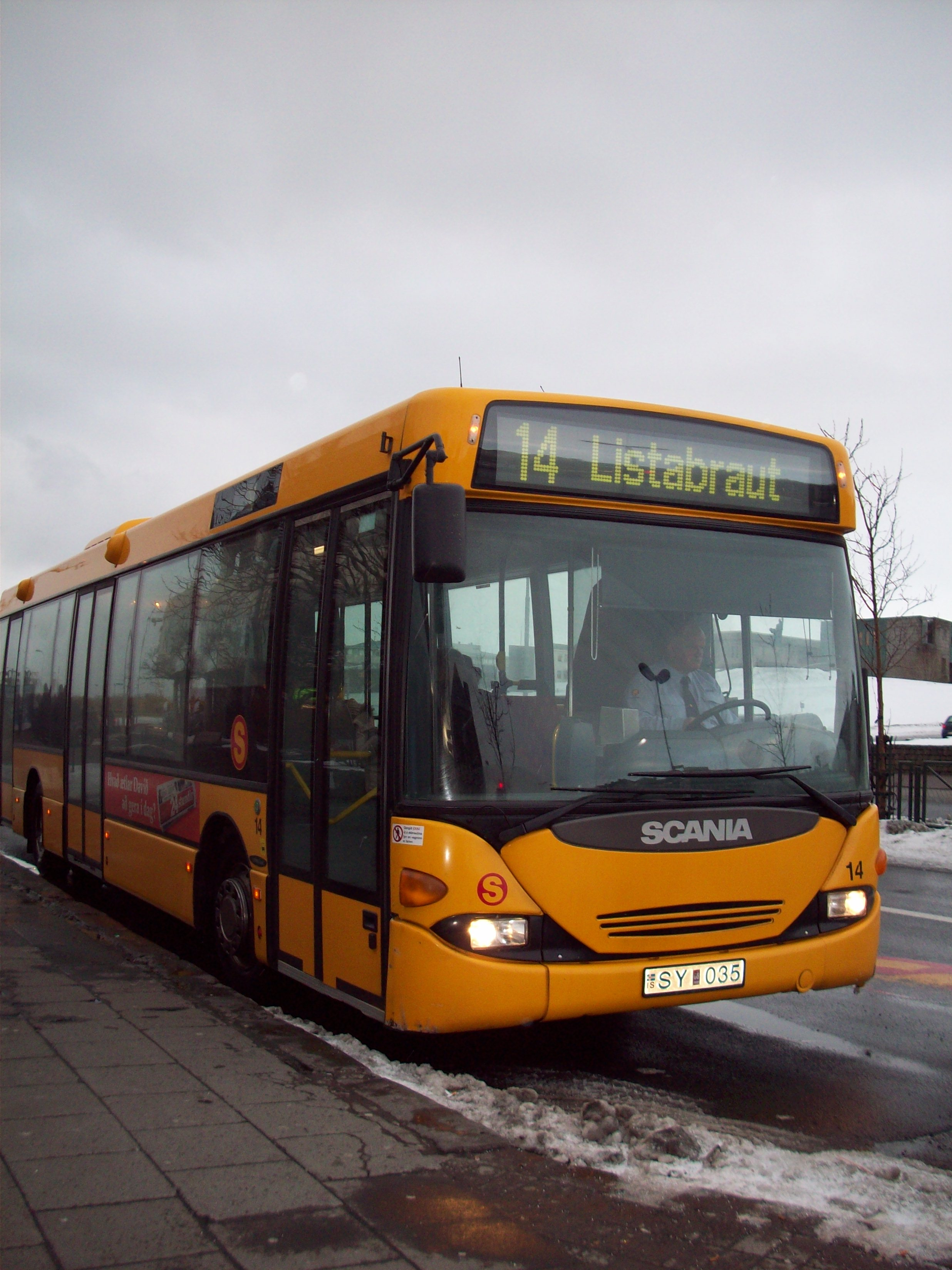 A bus in Reykjavík